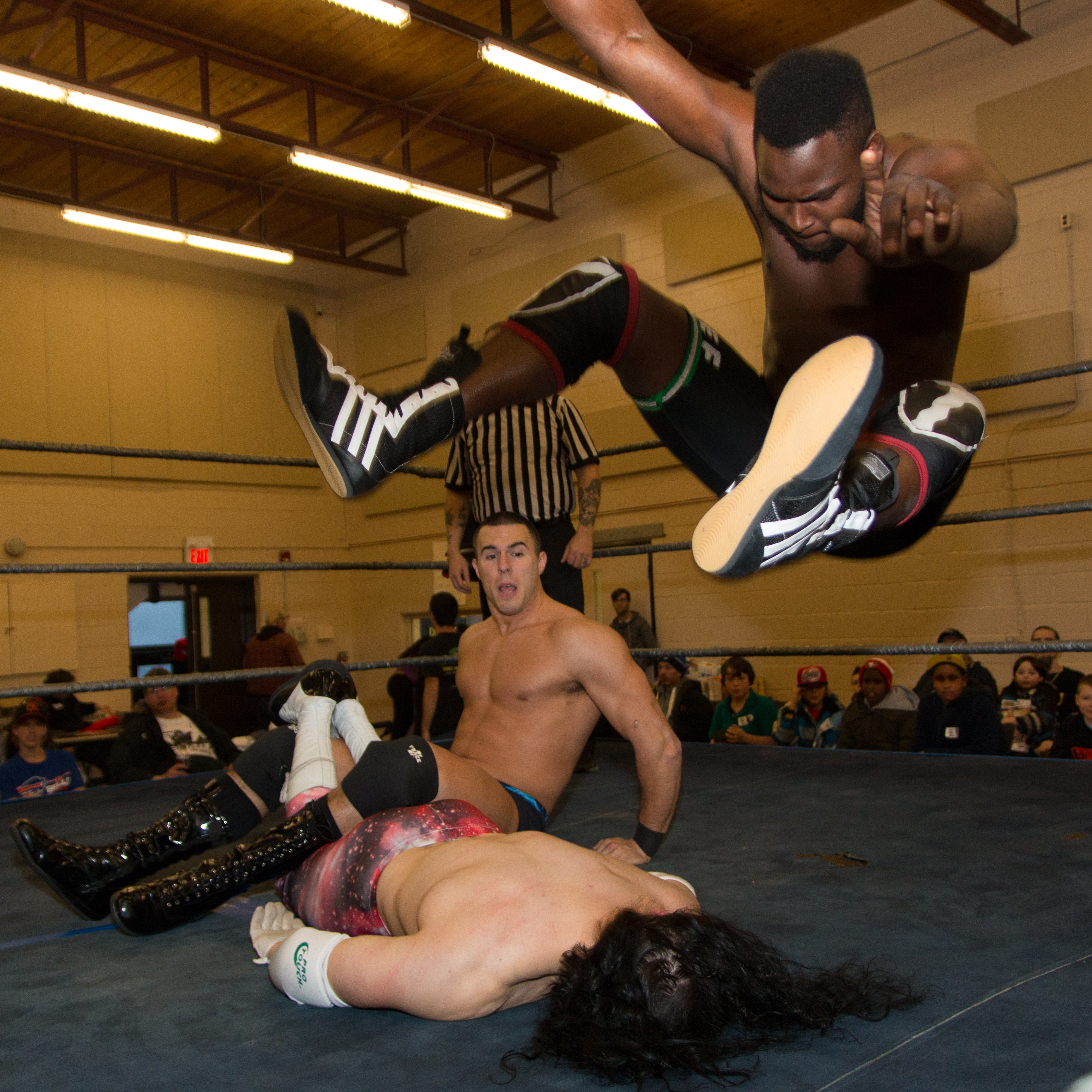 Wrestler Chief Ade (in air) delivering a leg drop to his opponent